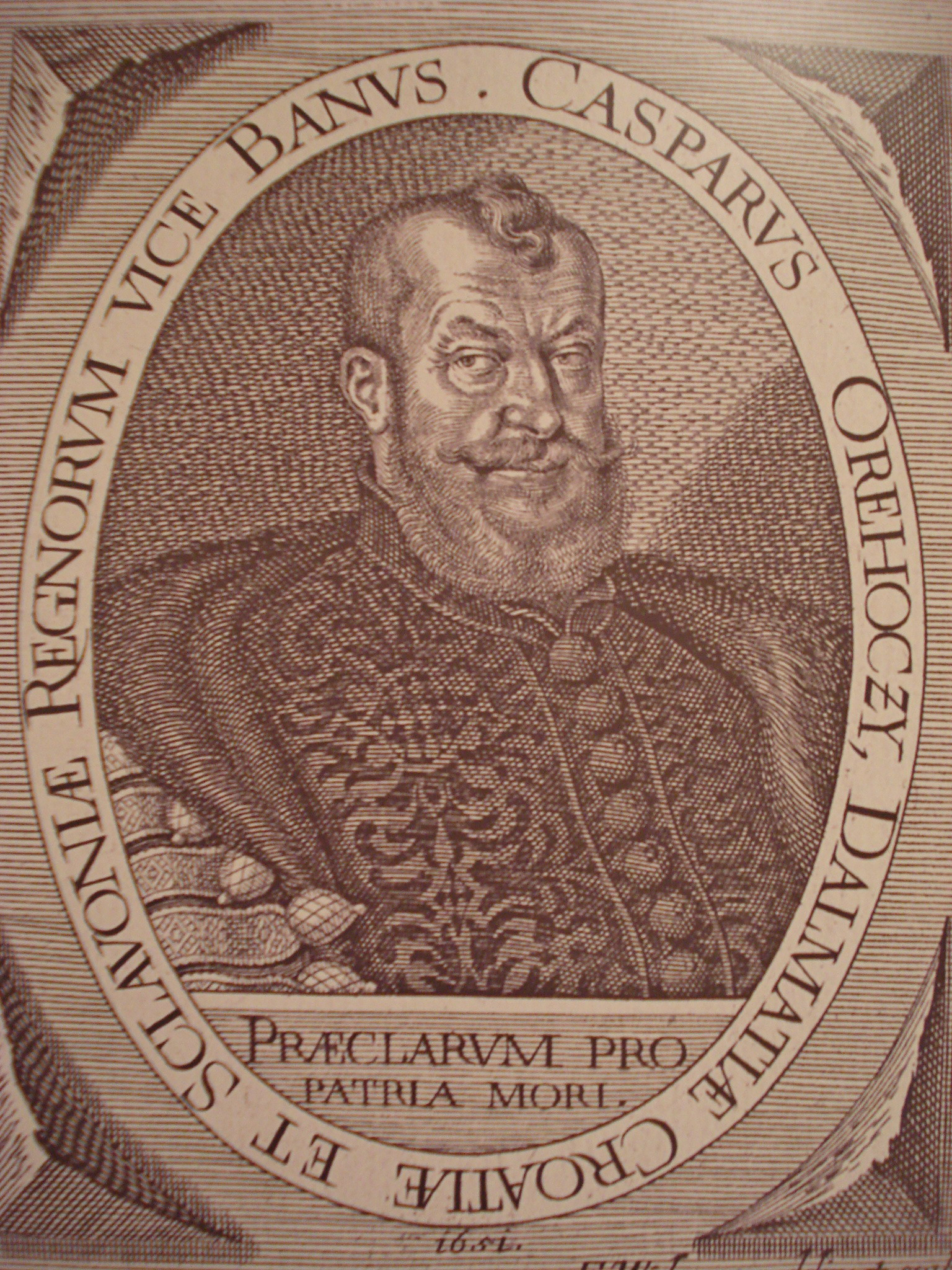 Gašpar Orehovečki (Orehoczy), Viceban of Croatia (1651.)